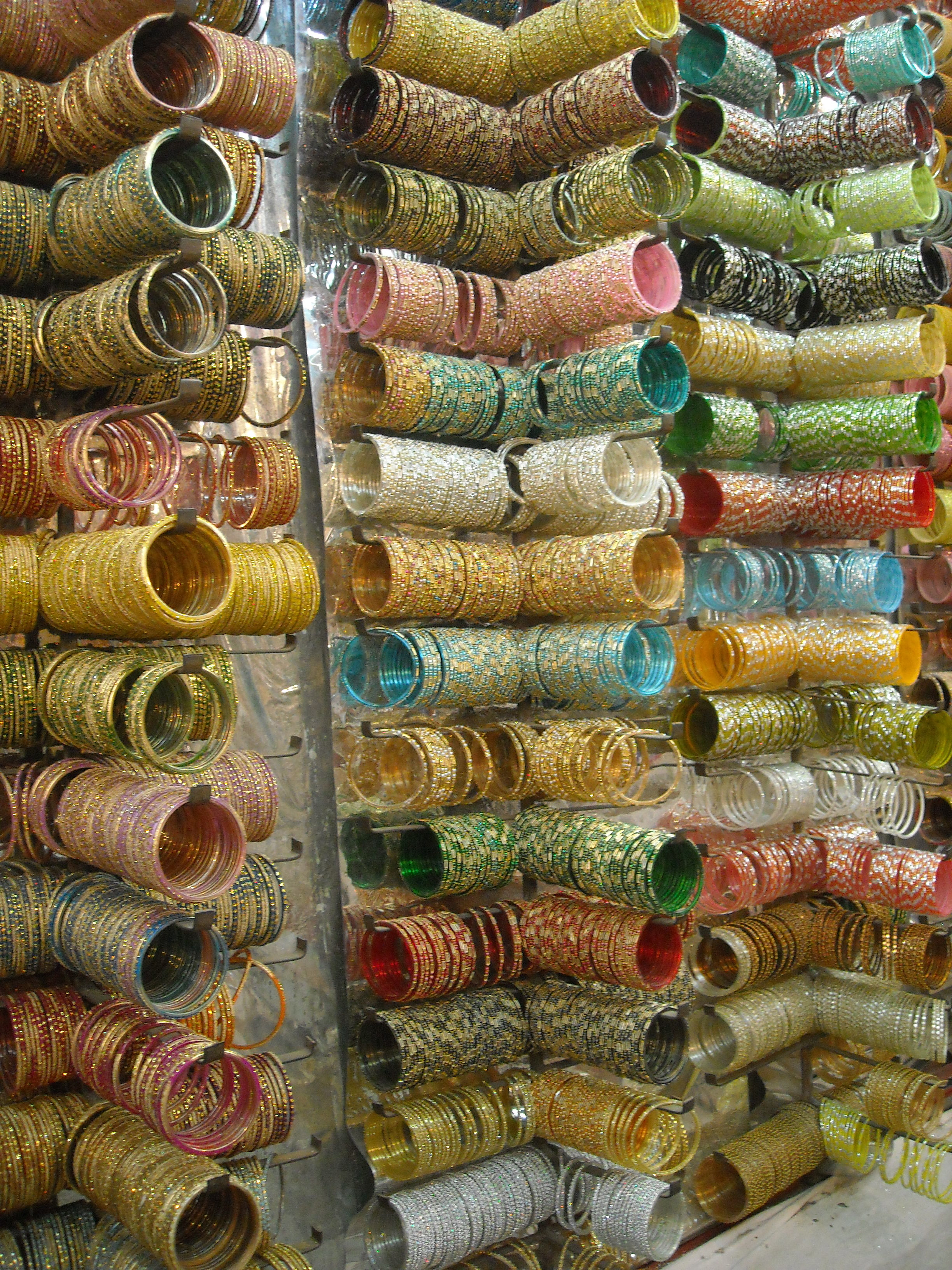 Bangles for sale in old city part of Hyderabad